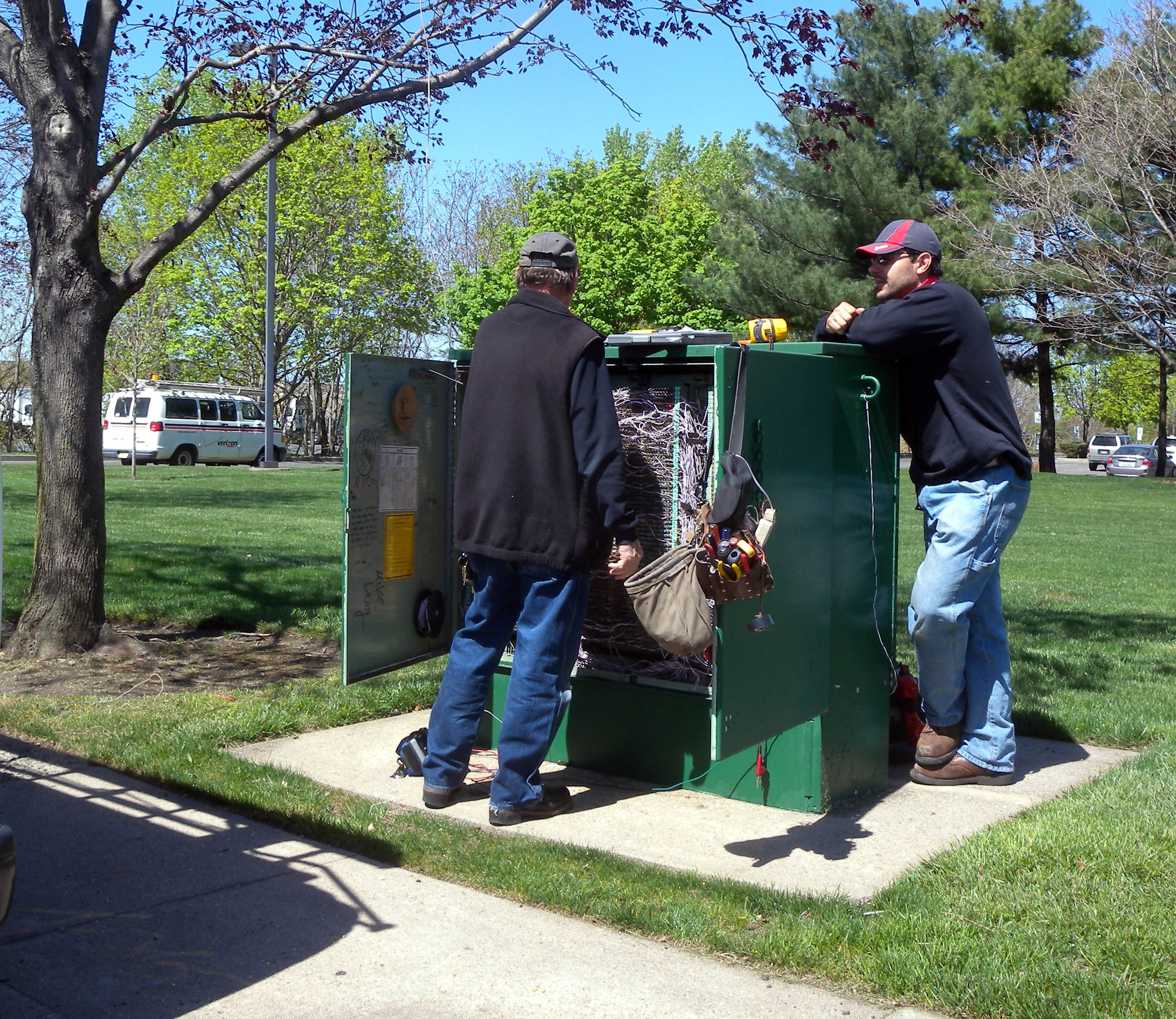 Looking north at an open cabinet in front of the ORICA building in the northern part of the Harmon Meadow complex on a sunny midday.